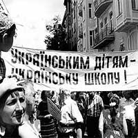 Ukrainian School for Ukrainian kids. (Ukrayins'kim dityam - Ukrayins'ku shkolu!)